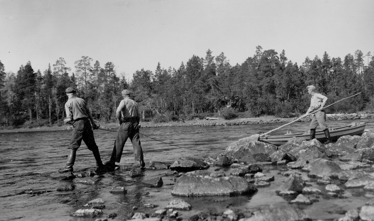 Image Note: Boat. Boatmove Levelling work. Flood rocks. Bildenotat: Båt. Båttrekk. Nivelleringsarbeider. Date/Dato: xx.xx.1939 Photographer/Fotograf: Aastad, J (ingeniør) Feel free to use the photos, but please make sure you attribute the photographer and mention NVE as the source. Bruk gjerne bildene, men vennligst oppgi fotografens navn og angi NVE som kilde. Format: Positive/Positiv Archive/Arkiv: Vassdragsarkivet Image ID/Bilde ID: V-arkiv_141j-6_p25